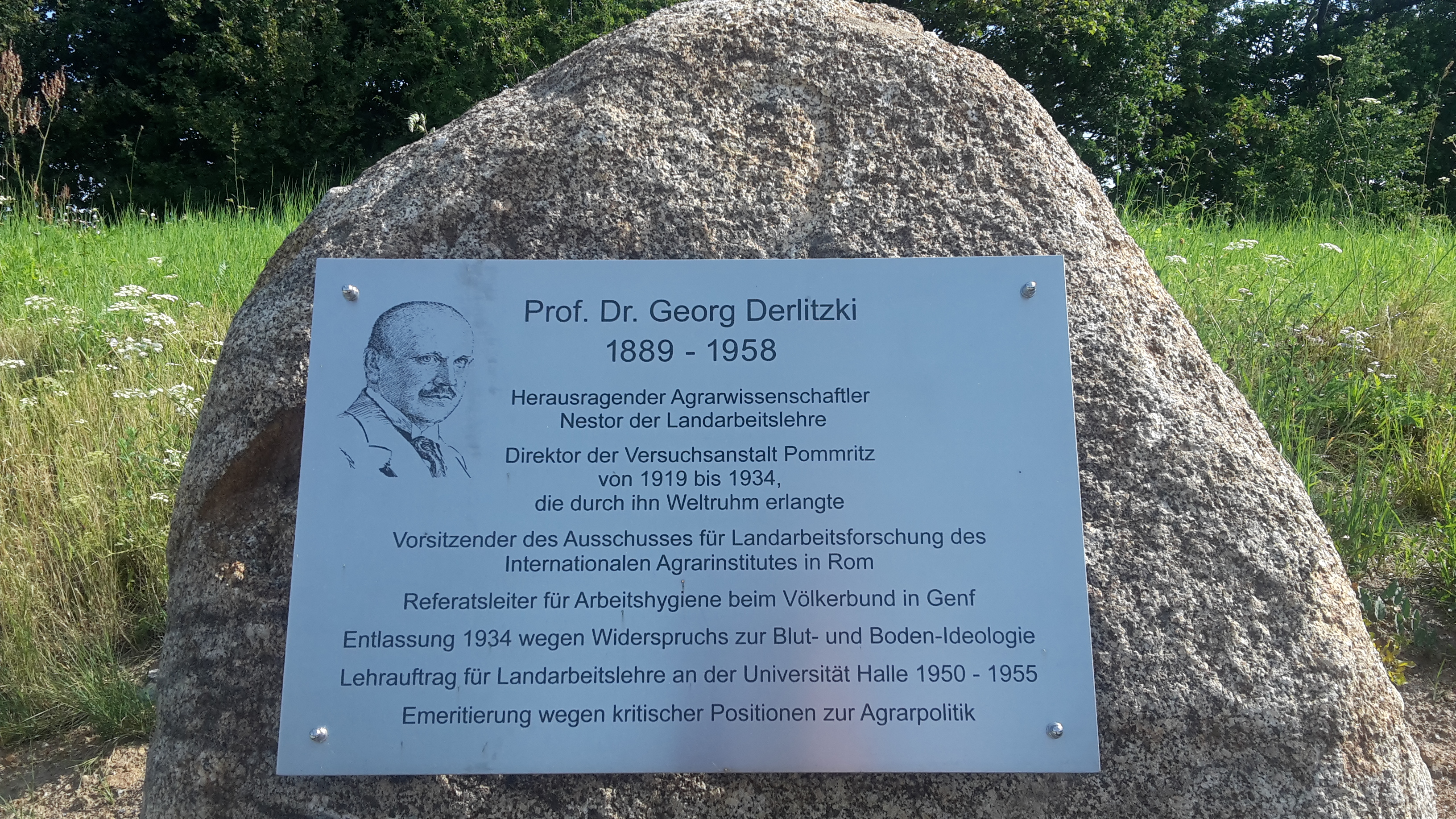 commemorative plaque for Prof. Dr. Georg Derlitzki in Pommritz, 2019